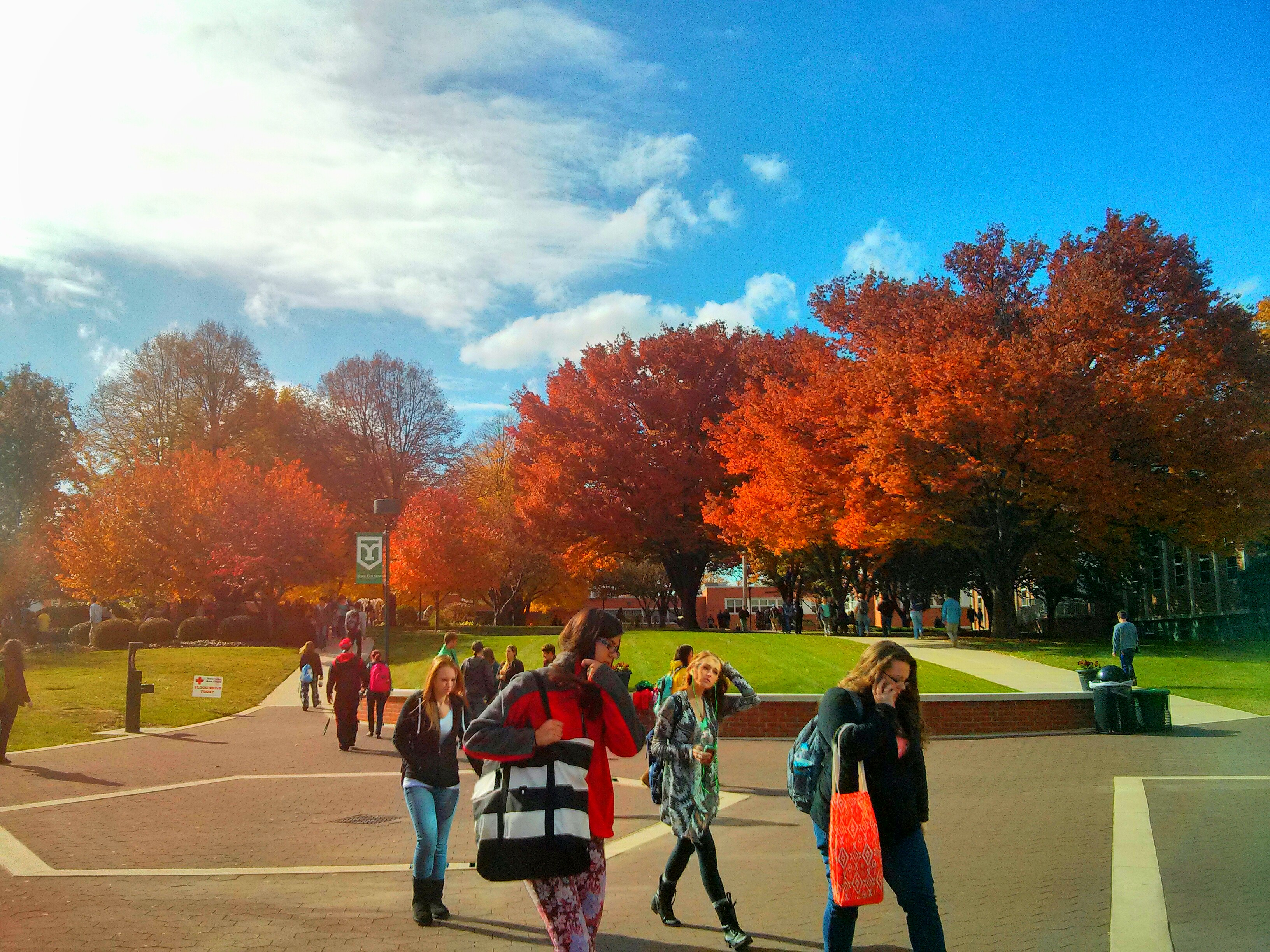 Students walk to class at York College of Pa